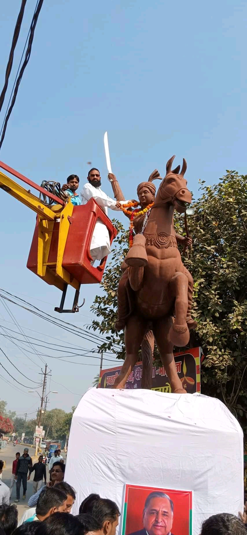 Jhalkari Bai Jayanti Celebrated by BSP